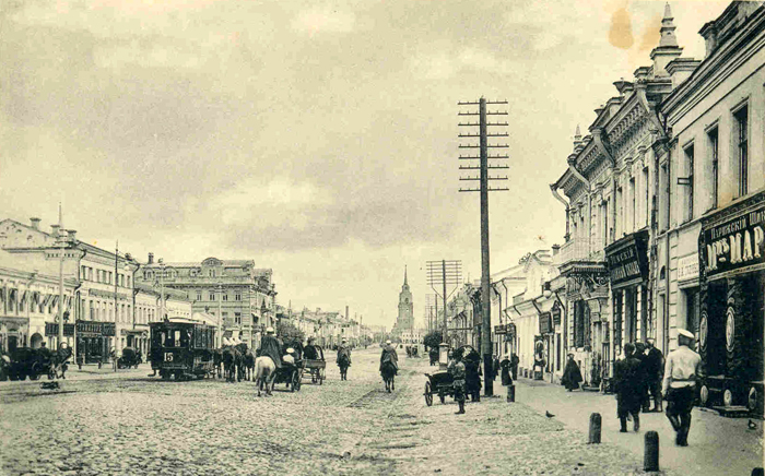 Kiyevskaya street in Tula.